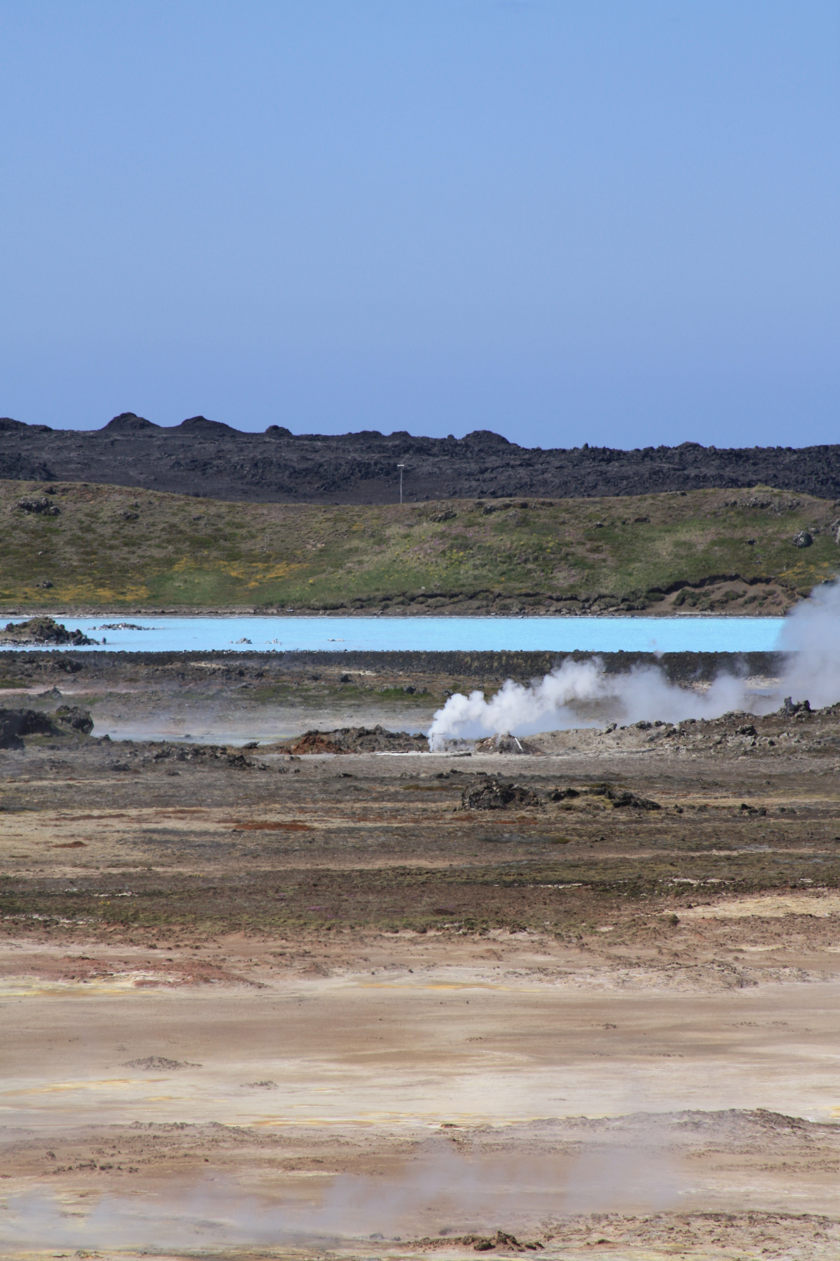 Unnamed Road, Iceland